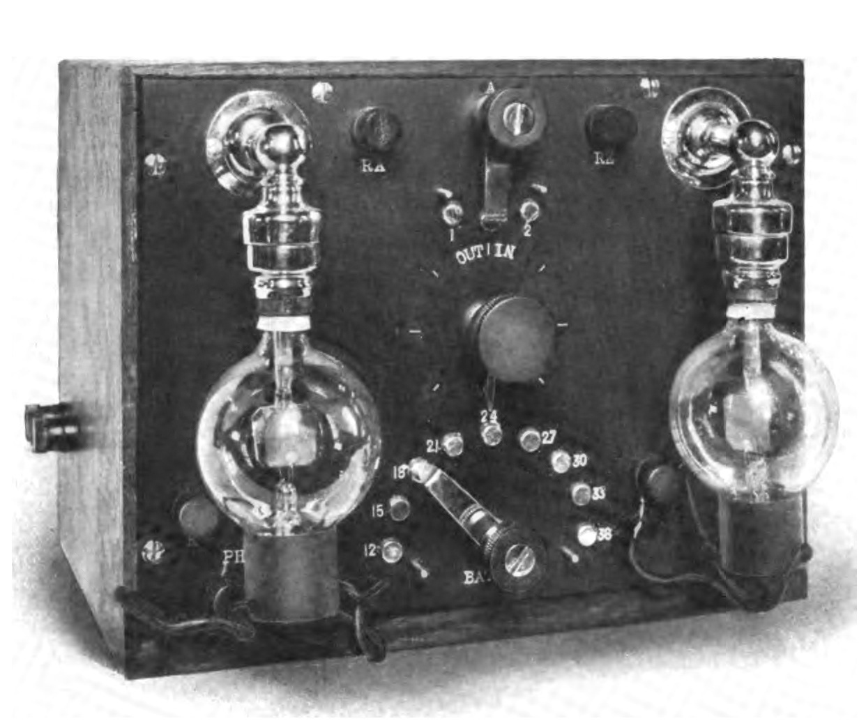 An early audion radio receiver built by the inventor of the audion vacuum tube, Lee De Forest, around 1914. The audion, the first triode, was the first electronic tube that was able to amplify. Although invented in 1906, the amplifying ability of the audion was not recognized until 1911-1912, so this was one of the first amplifying radio receivers. It appears in a paper by De Forest demonstrating to his fellow engineers that the audion was not just a radio detector but also had the ability to amplify a signal. This device was not a complete receiver, only a detector and two stage audio amplifier; in use it was connected to the output of a "tuner" section which selected the station to be received. The two audion tubes are visible, mounted upside down, as audions usually were, so that their delicate filaments did not sag under their own weight and touch the grid. The center knob controlled the filament current; the lower multipoint switch the plate voltage. The gain of these primitive tubes was low; the source claims power gains of up to 5. Inadequate evacuation left considerable residual air in the audion which ionized, causing erratic operation and shortening the life of the filament. Alterations to image: removed aliasing artifacts (diagonal stripes) from scanning of halftone image using Gimp FFT filter.